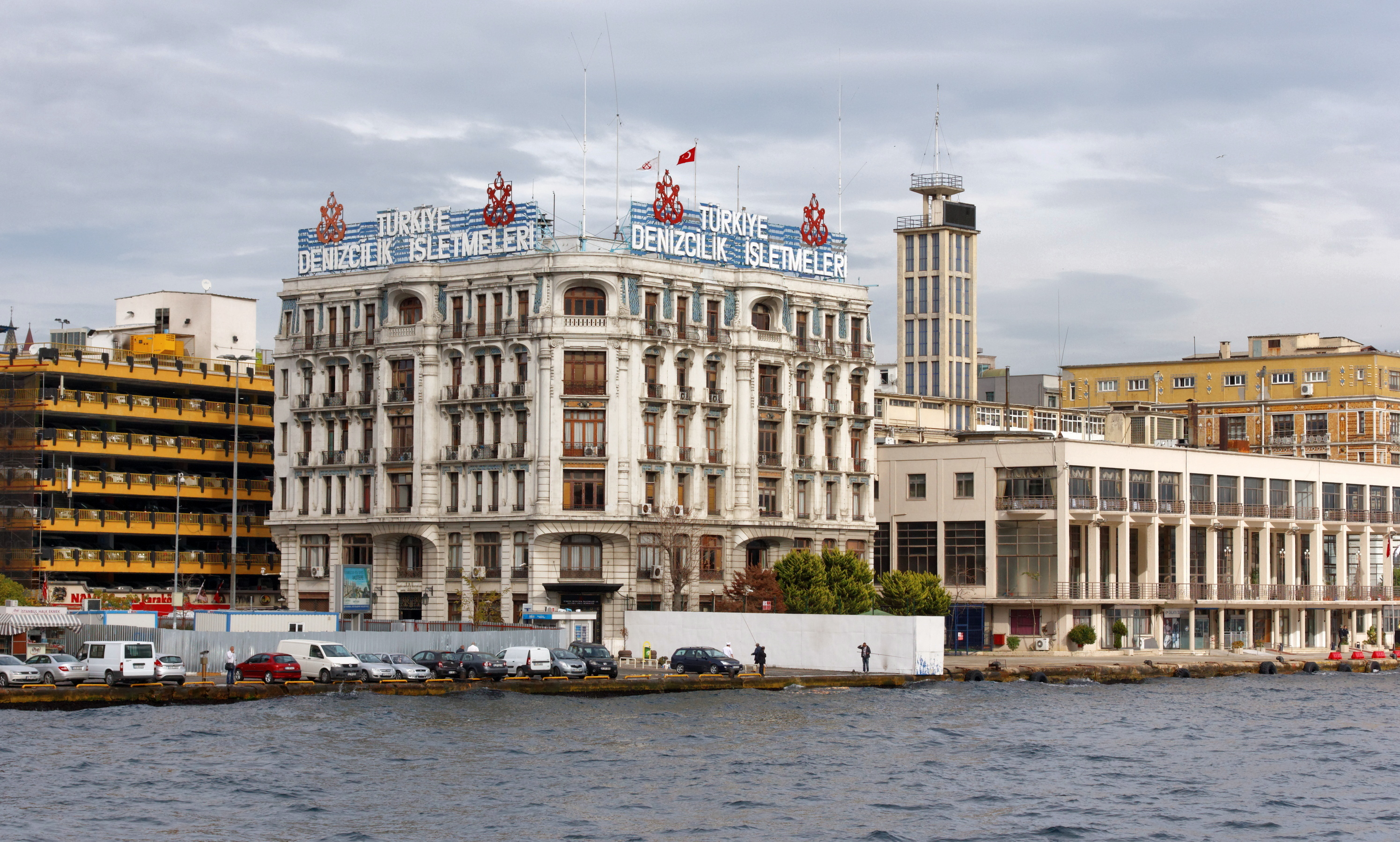 Istanbul